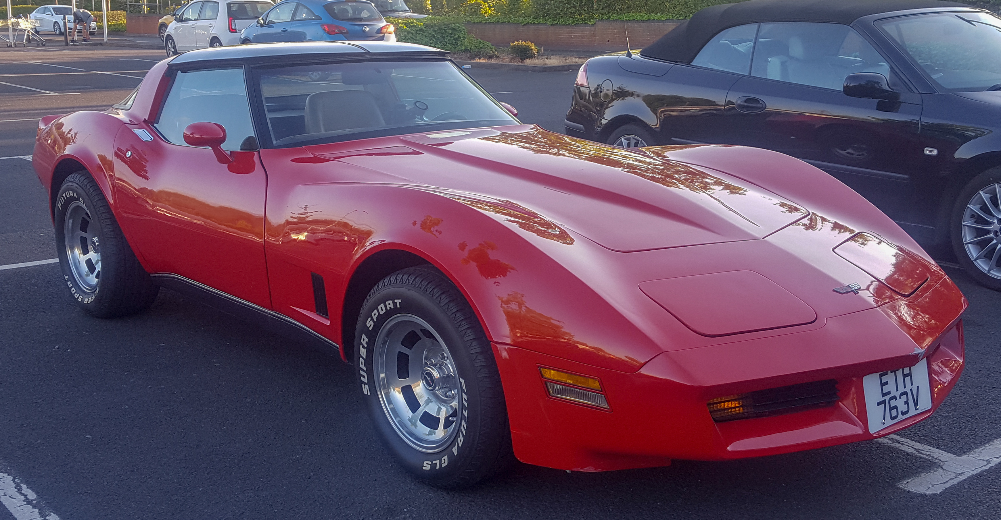 1980 Chevrolet Corvette Stingray 5.7 Front Taken in Warwick